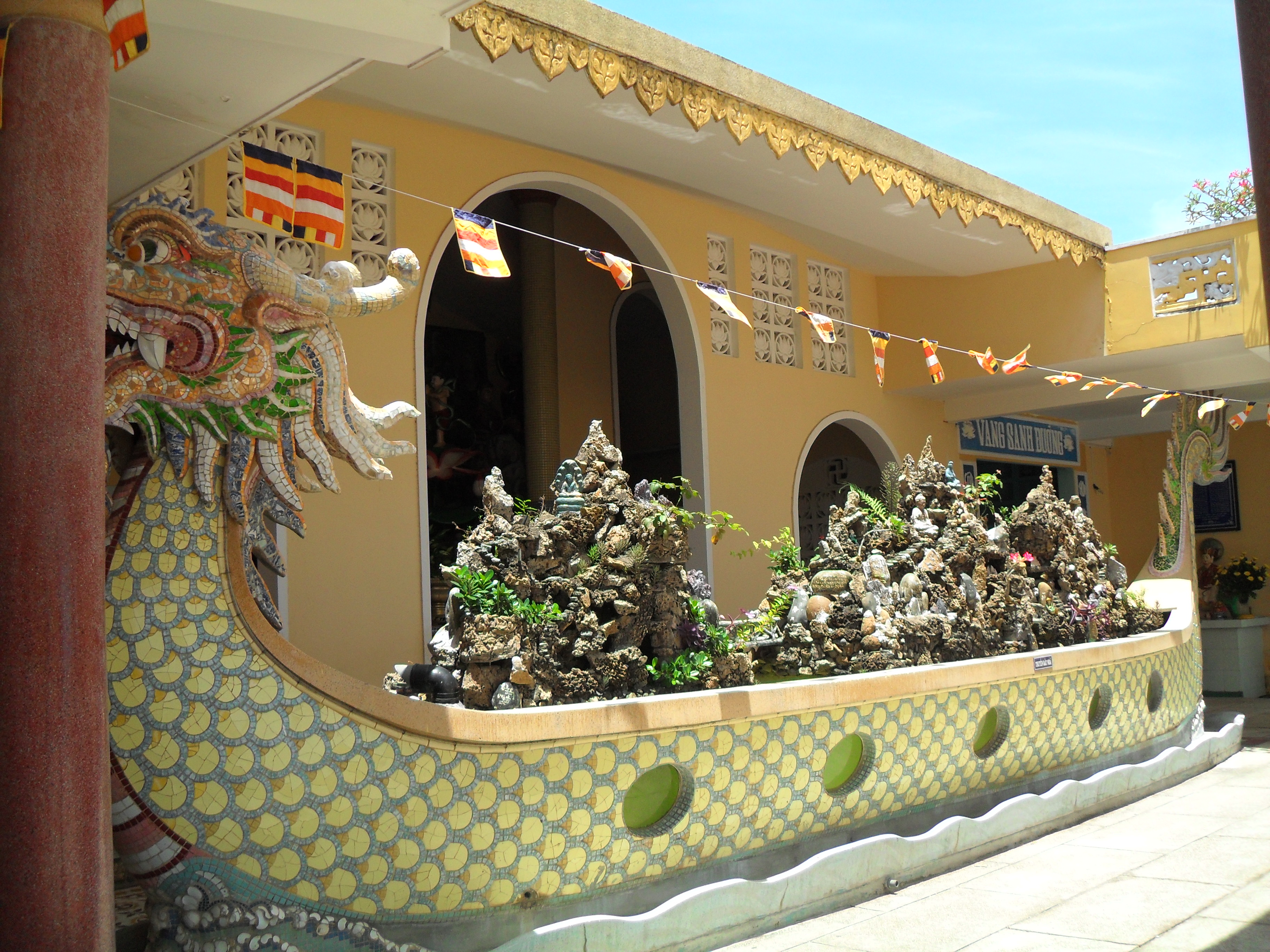 Inner yard of Niet Ban Tinh Xa pagoda in Vung Tau, Vietnam